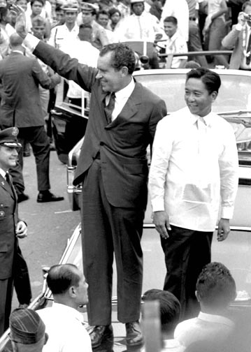 President Richard Nixon and Philippine President Ferdinand Marcos wave to the crowd from atop the hood of their car